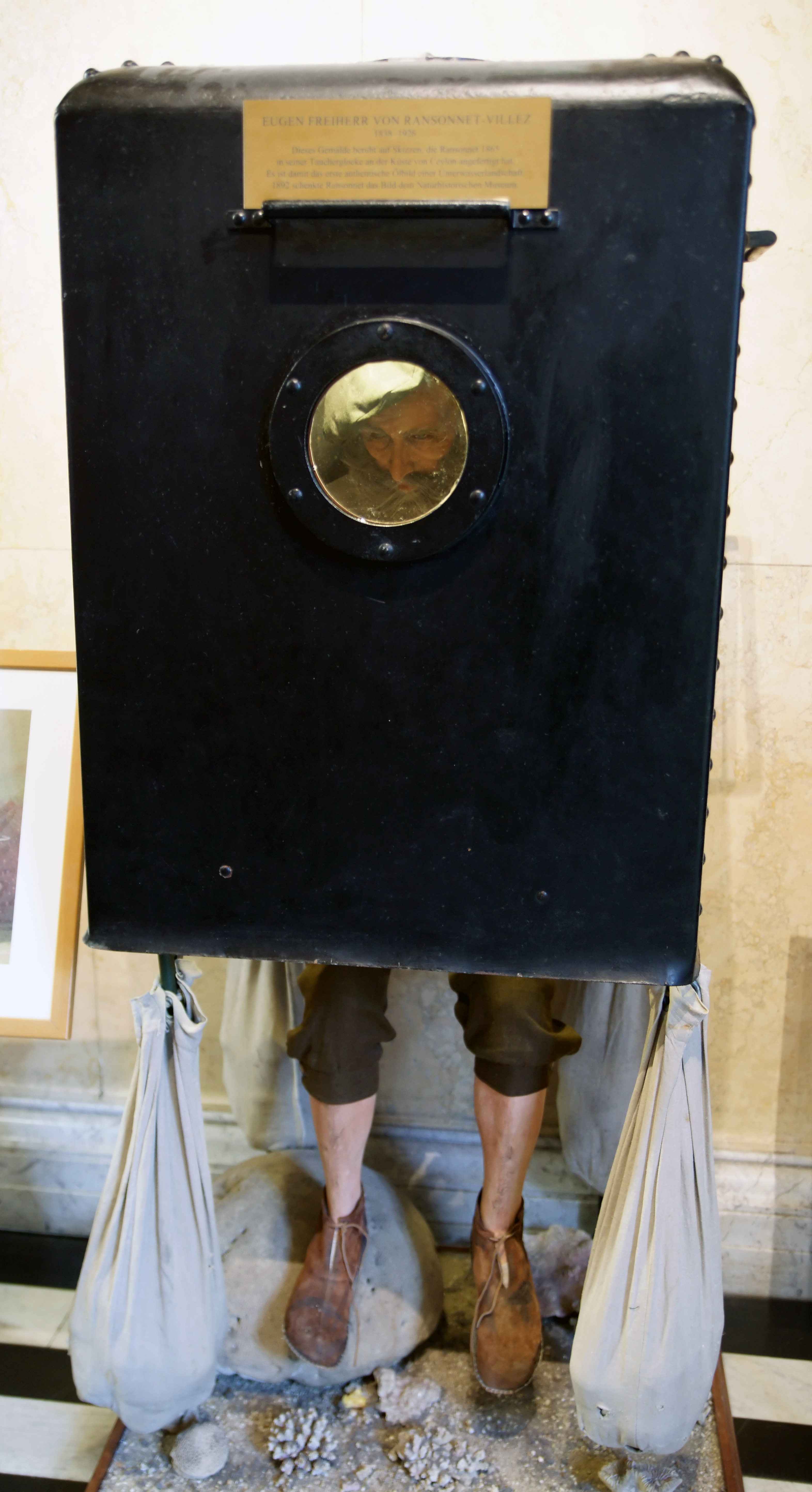 Diving bell of submarine painter Eugen von Ransonnet-Villez, 1864. Reconstruction in the Naturhistorisches Museum Wien.